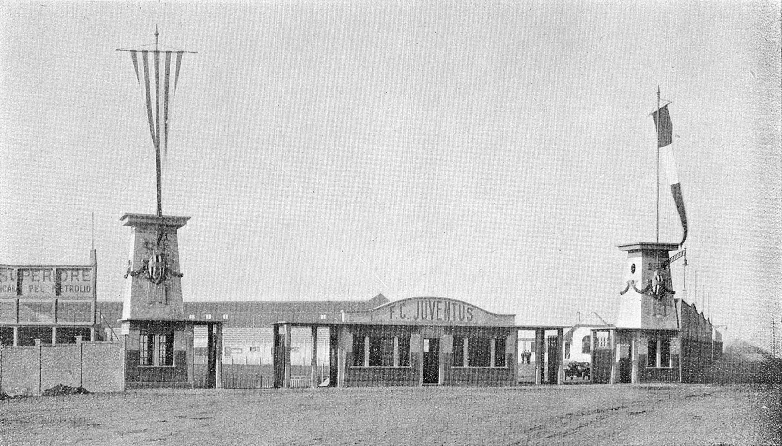 Exterior of Campo Juventus (Juventus Stadium) between 1920s and 1930s (the photograph was undoubtedly taken no later than 1939 because the venue was demolished in that year).